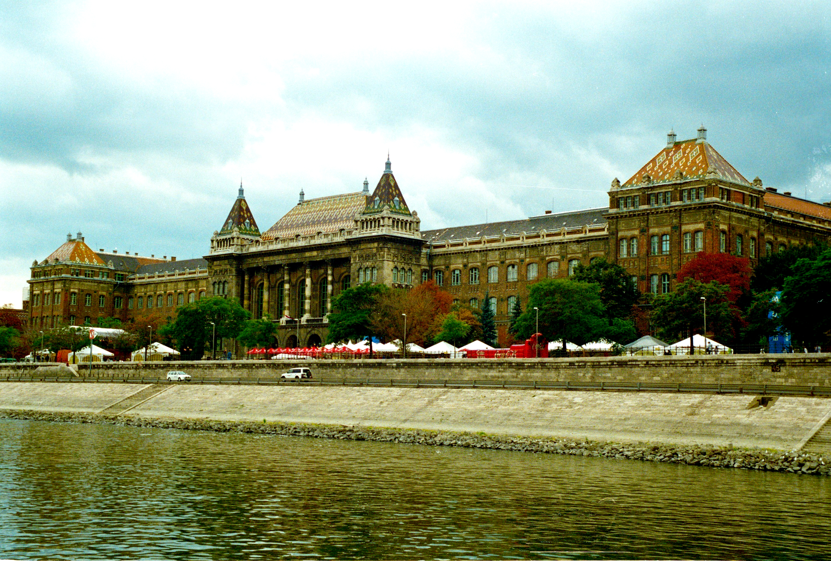 Budapest from Danube